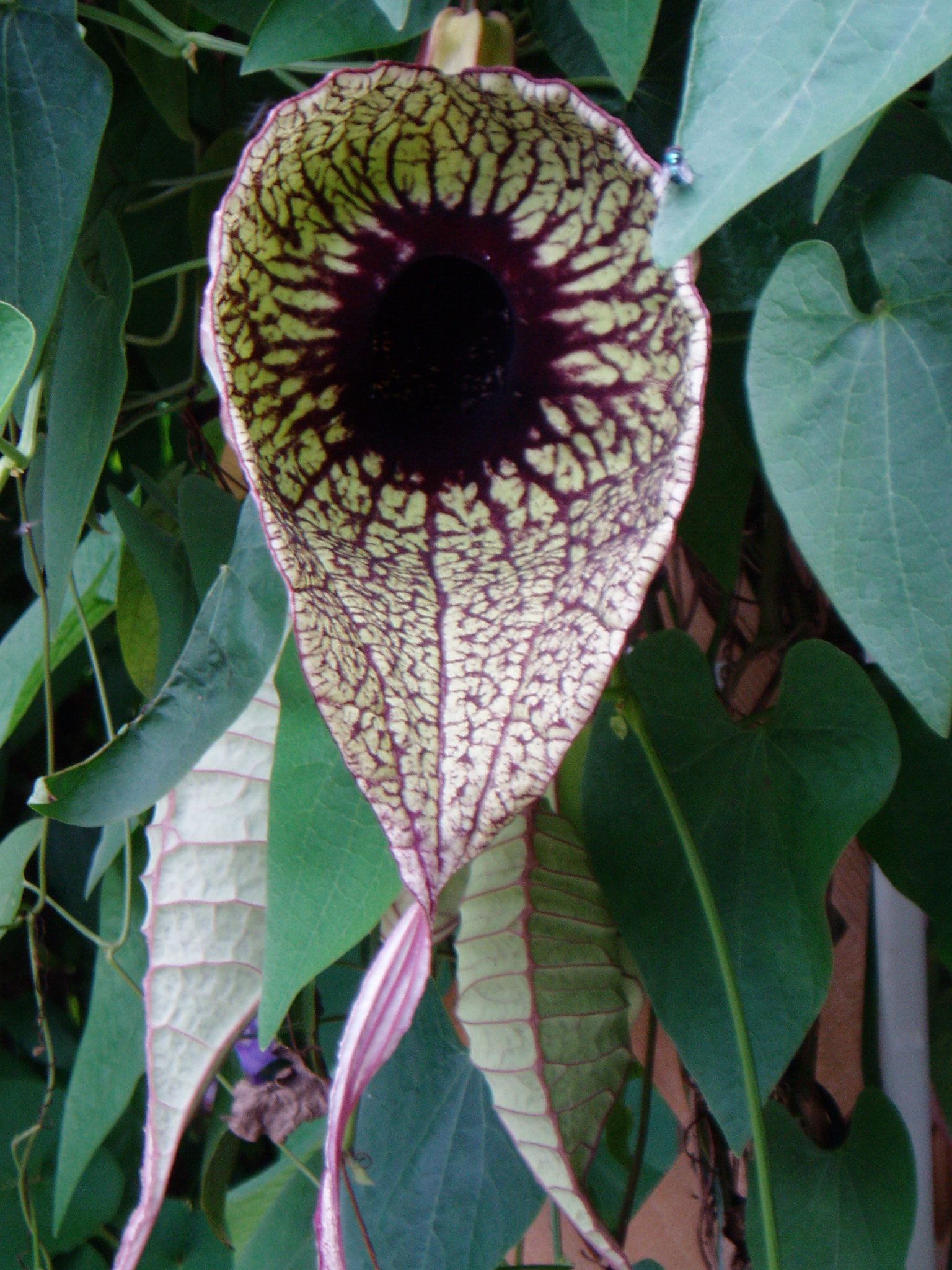 Image taken at Butterfly World Pelican Flower Aristolochia grandiflora